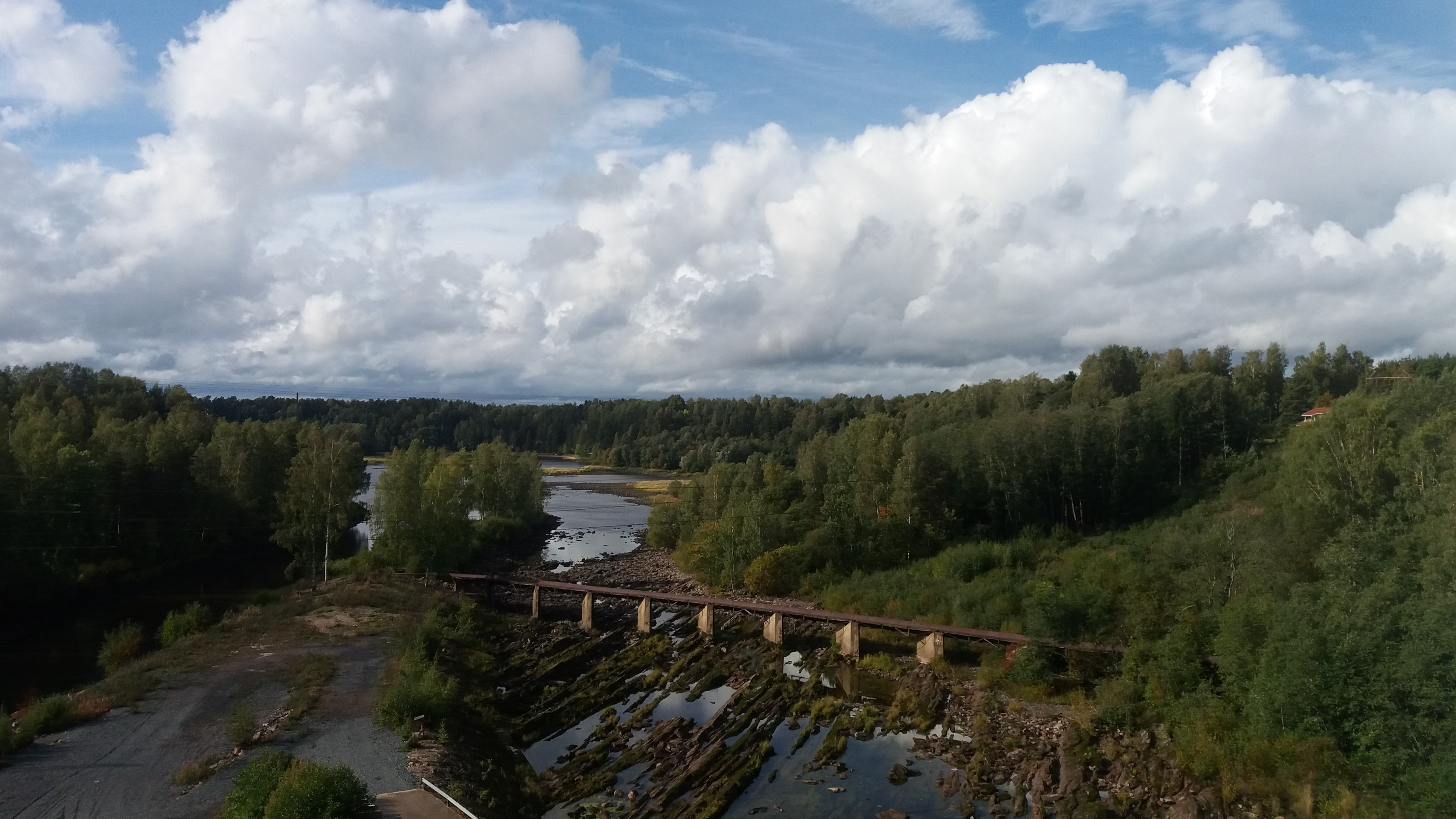 Lammaistenlahti cultural landscape on the Kokemäenjoki river, Finland. A view from the dam of the Harjavalta hydro electric plant.